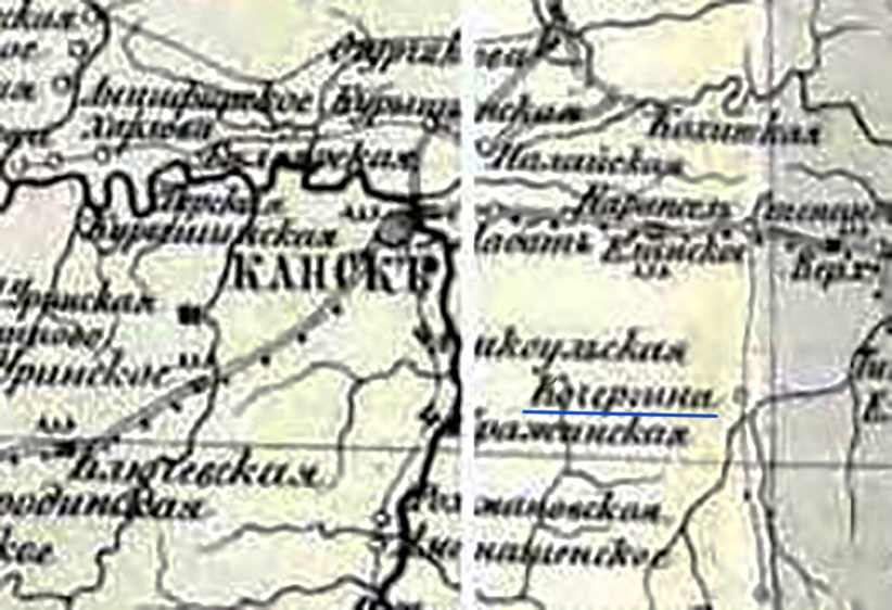 the 1871 map fragment. Kansky district. village Kochergina, now the village of Yuzhno-Alexandrovka